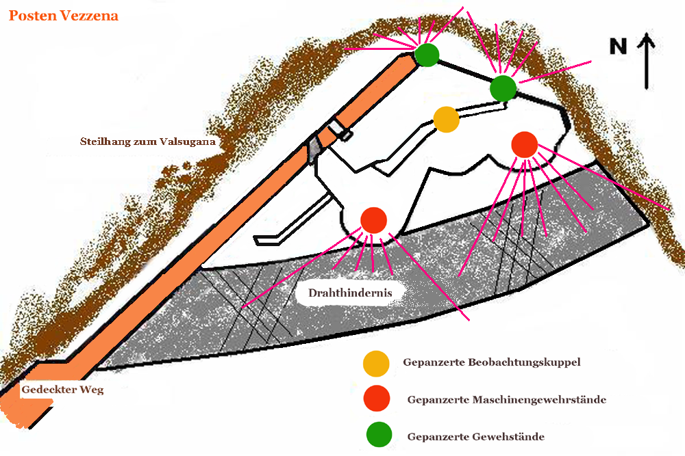 Map of the Fort Vezzena